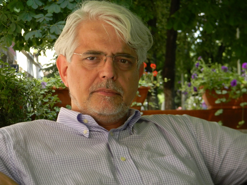 Portrait of Romanian Composer Sorin Lerescu